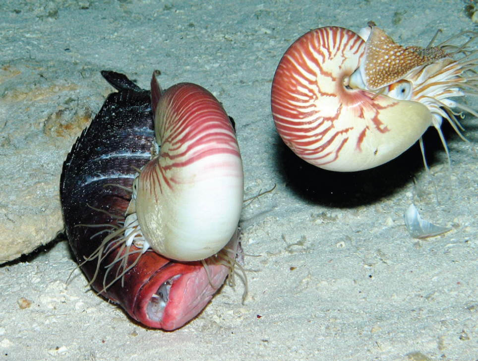 Original caption: "Nautilus pompilius recorded feeding during daytime at 703 m on red bass bait deposited by an ROV on the sea floor."